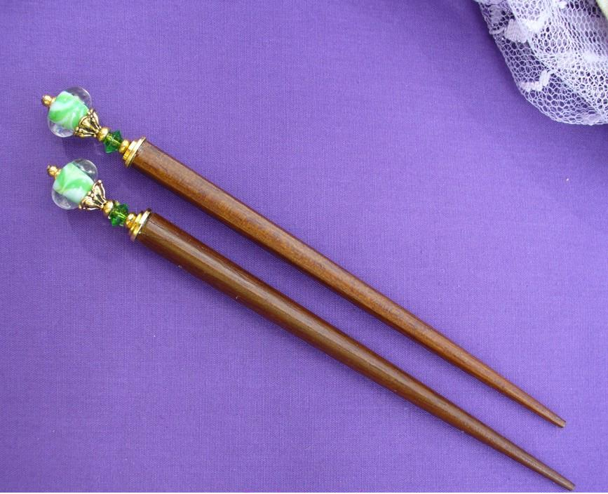 sample picture of a hair stick